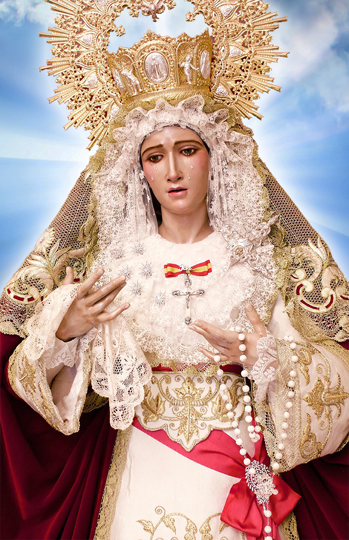 María Santísima de la Paz de Elche